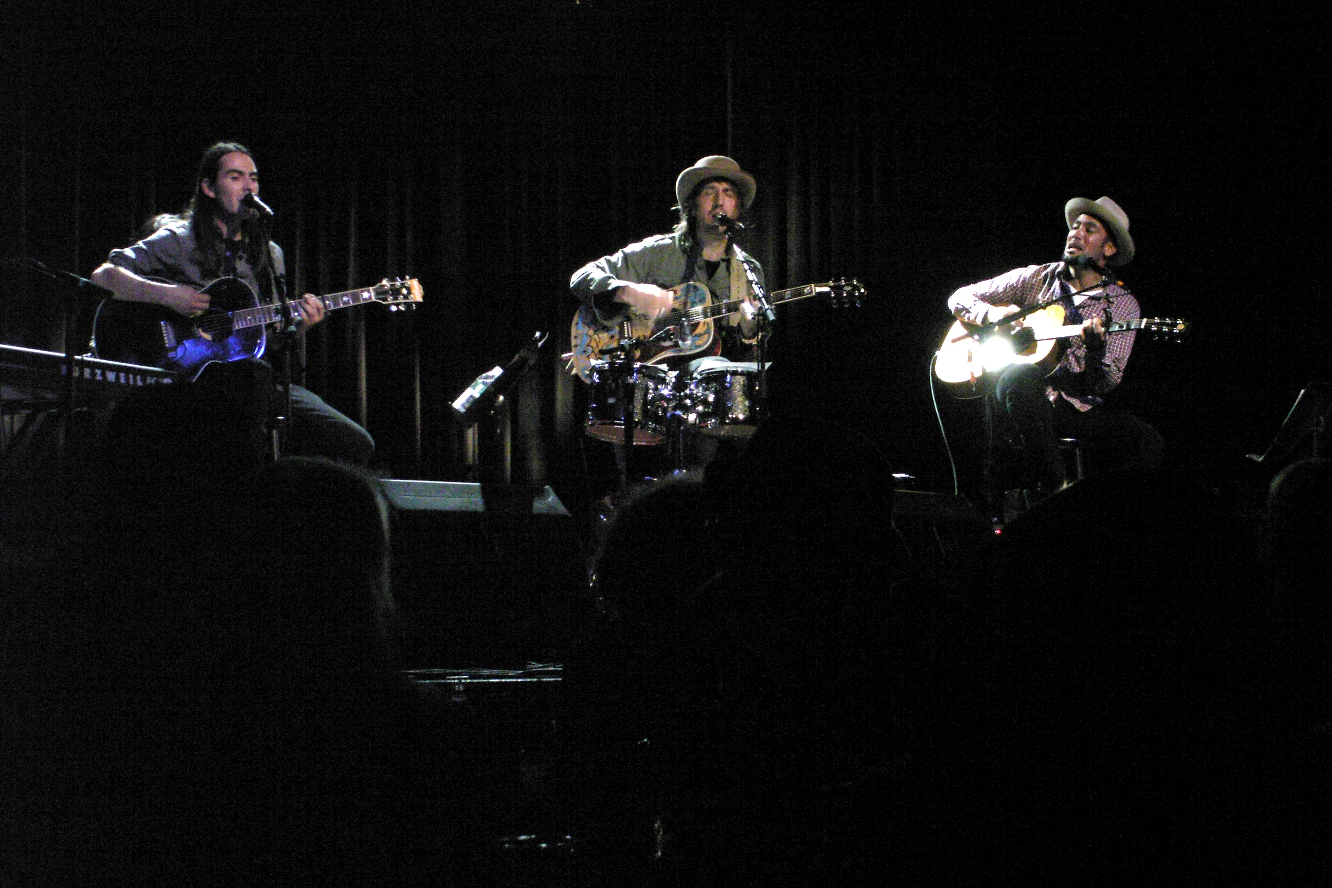 Fistful Of Mercy; the trio consisting of Ben Harper, Dhani Harrison, and Joseph Arthur in a performance on November 9, 2010 in Seattle, Washington